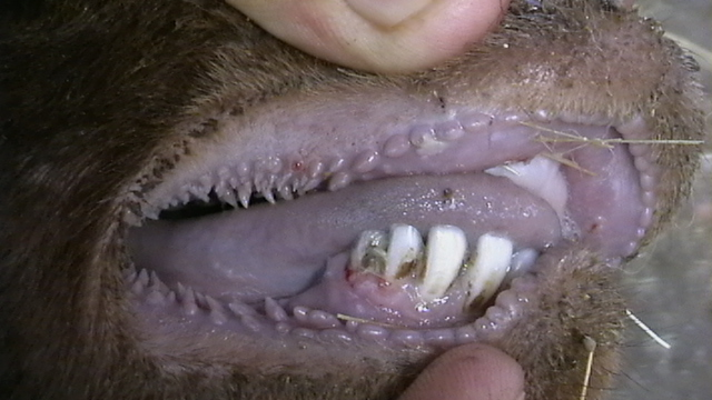 Ovine rinderpest : periodontitis Walon: Pesse des bedots et des gades : efouwaedje et erôdaedje del djincive, al raecinêye des dints (peridintite)